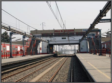 Villa El Salvador station. Lima metro, Peru